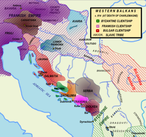 Map of Western Balkans; c. 814 AD